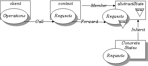 Statedesign pattern in the LePUS3 Design Description Language